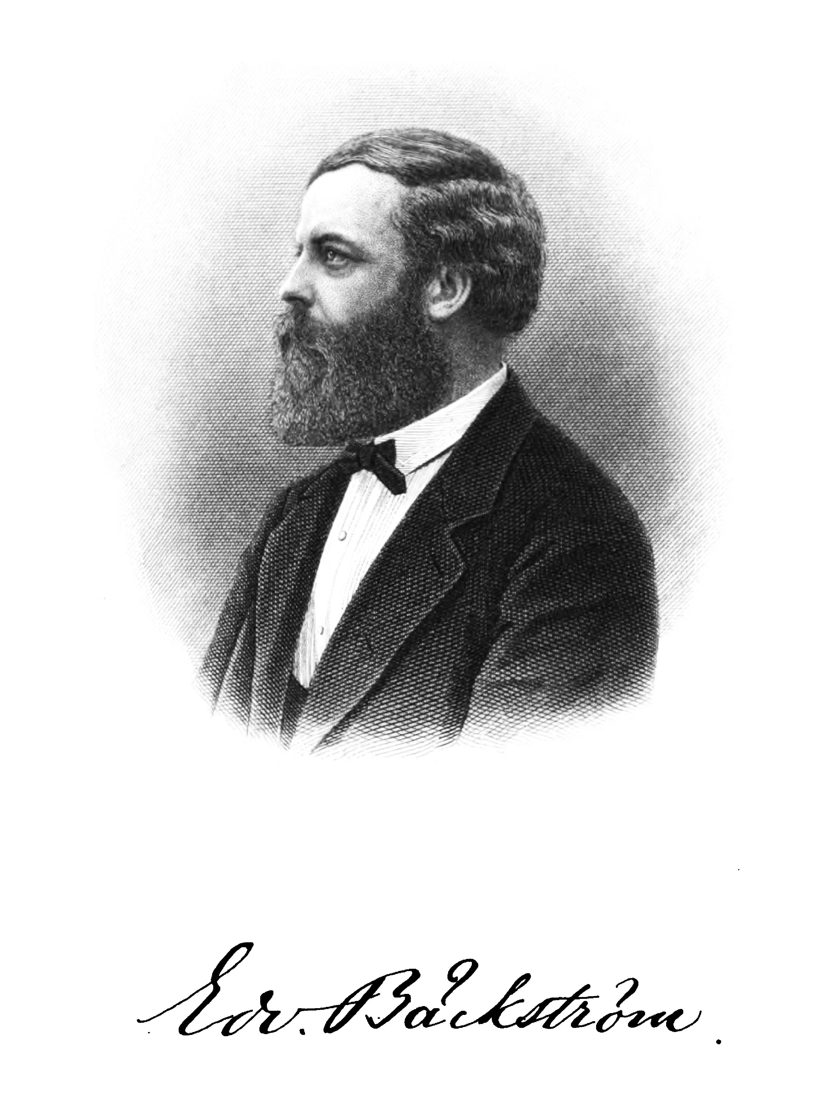 Edvard Bäckström, swedish writer and poet (1841-1886) with his signature.